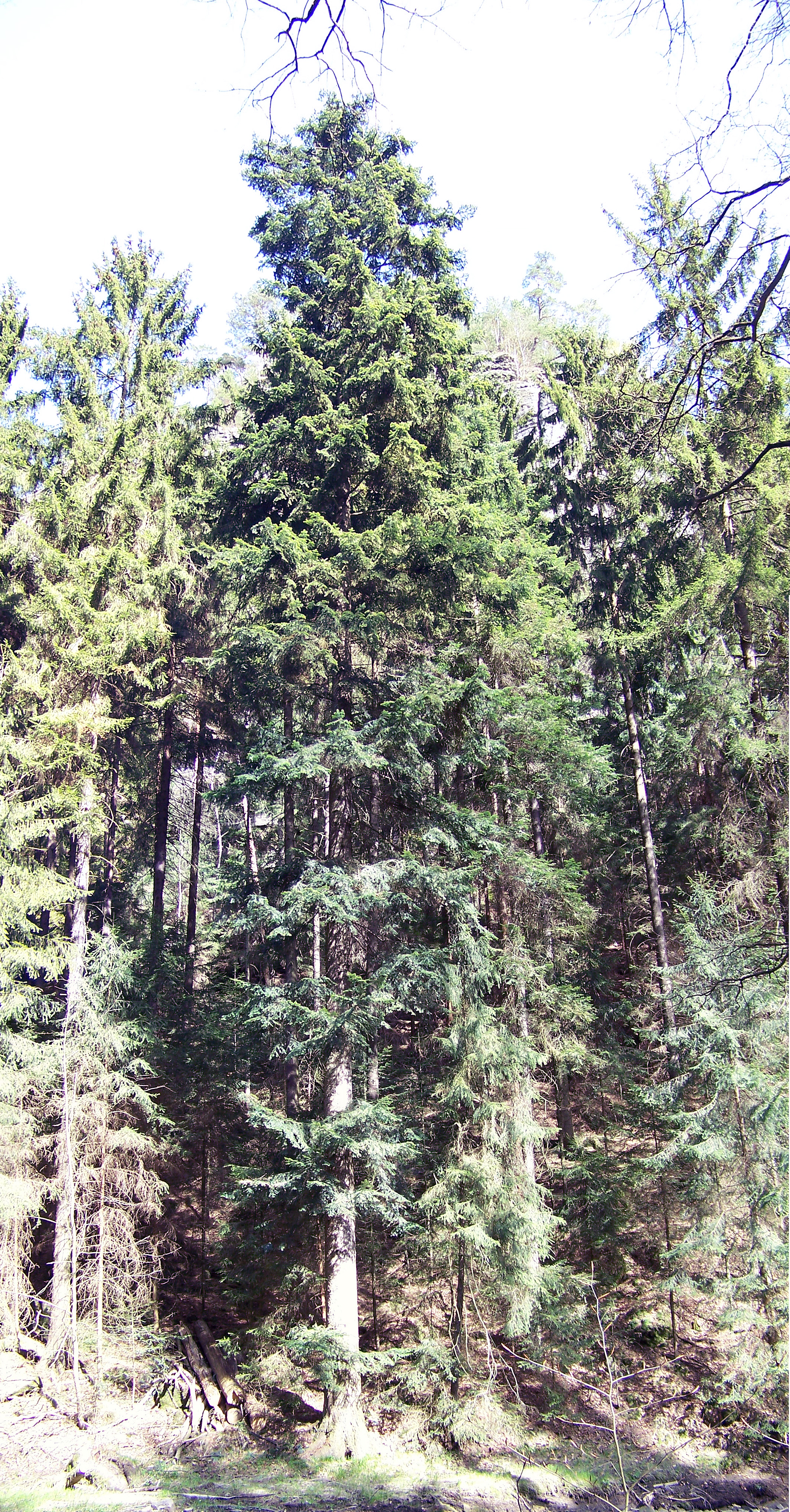 Old Tree of European Silver Fir (Abies alba). Habitat is the canyon-like valley of the Polenz rivulet in the Elbe Sandstone Mountains.